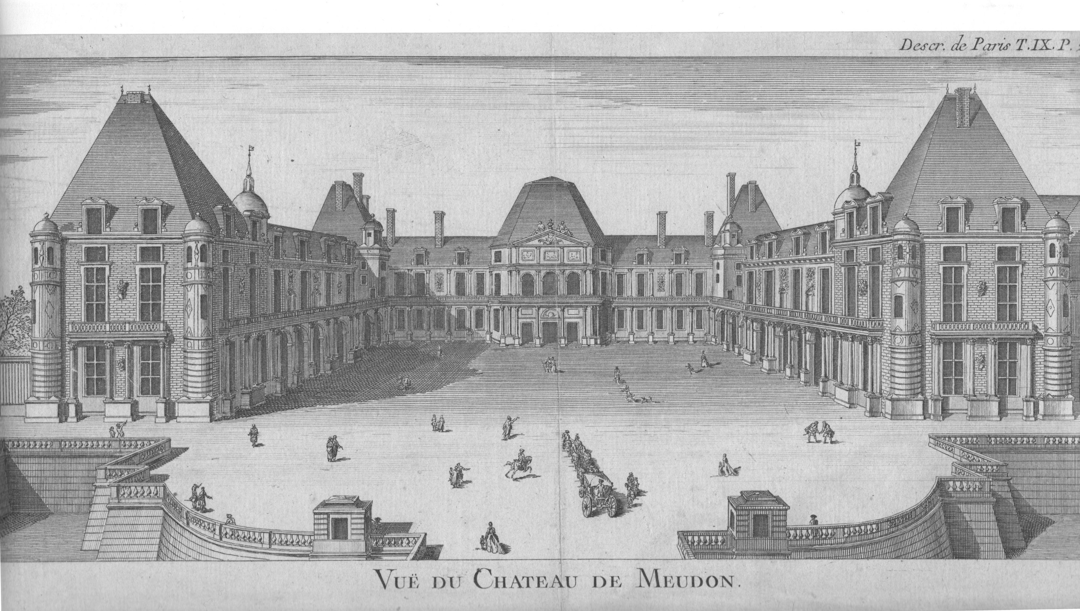 Drawing of the Château de Meudon by an unknown artist